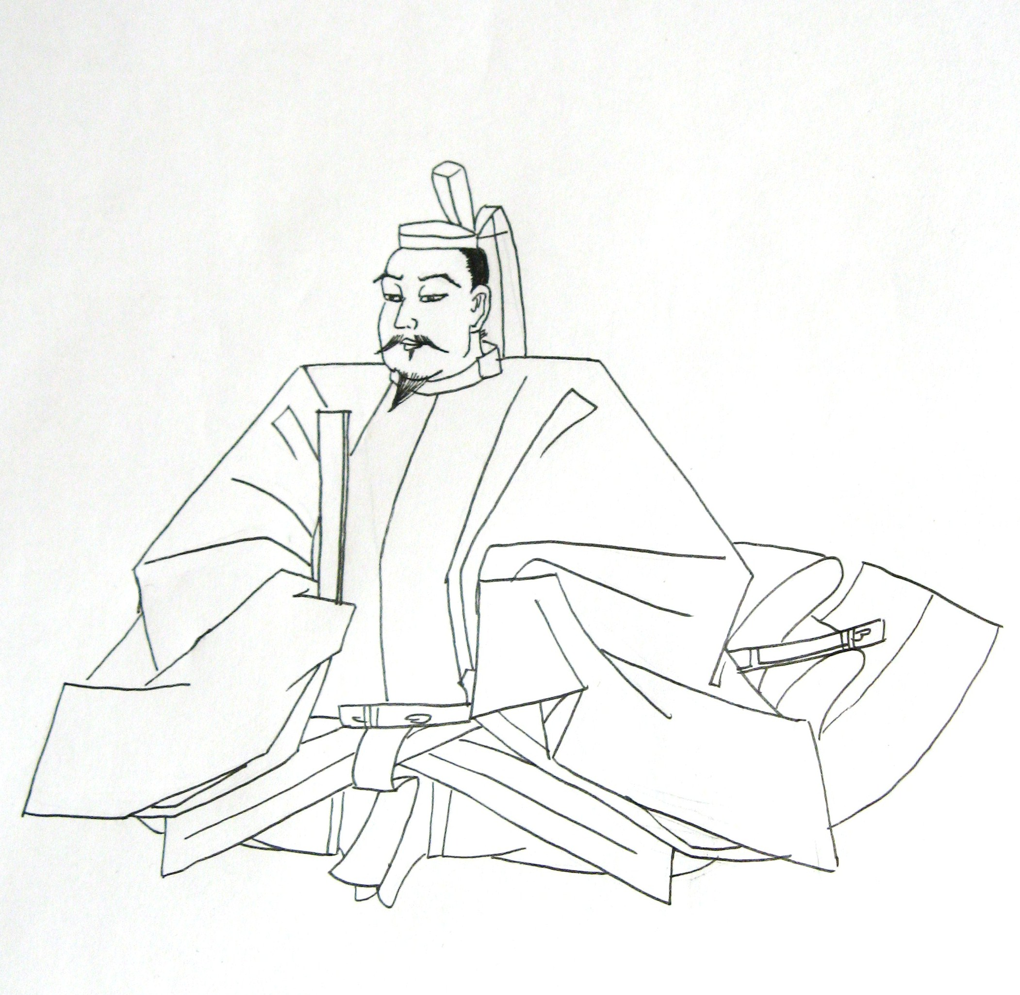 Fujiwara Yorimichi